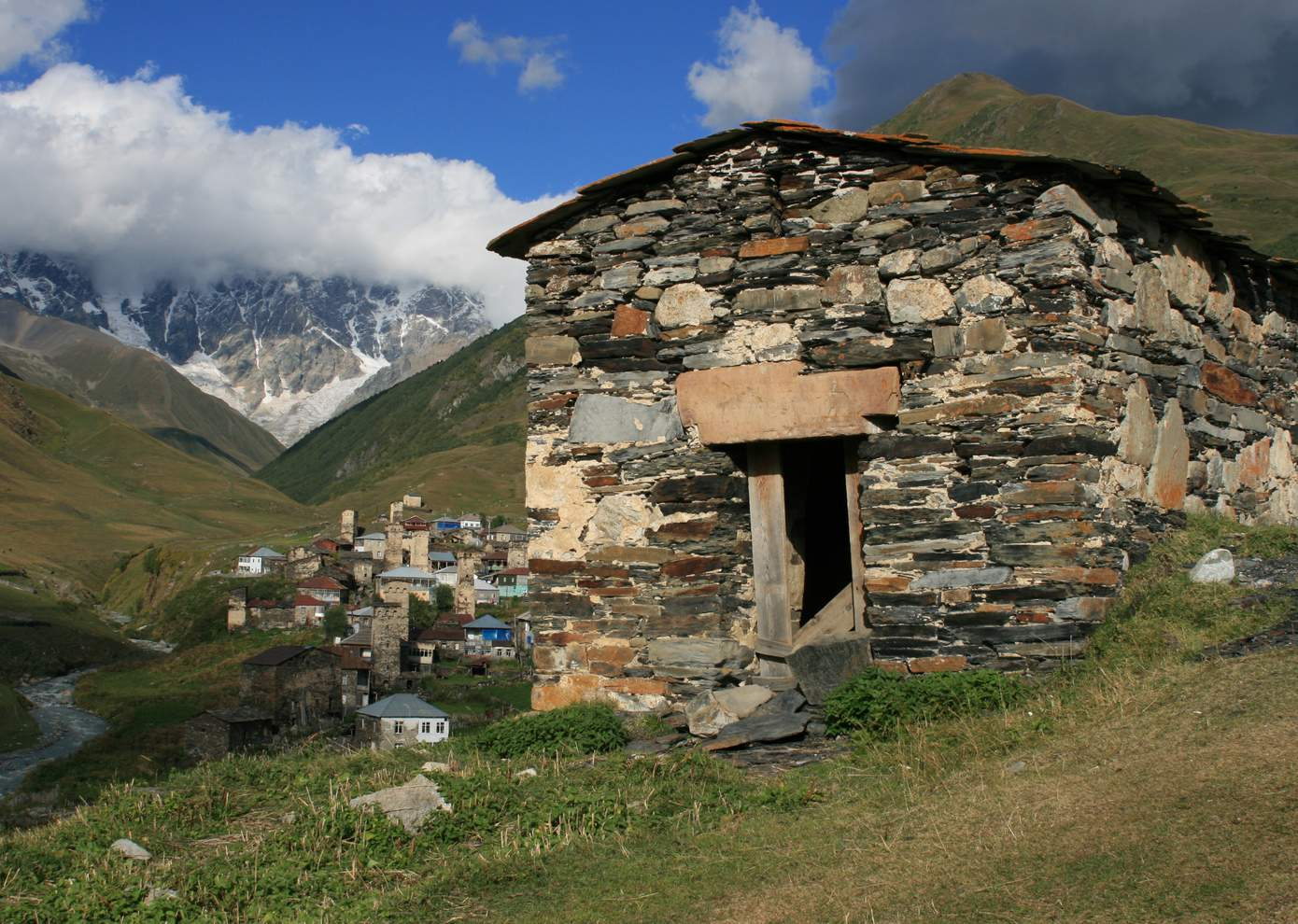 Chazhashi church and Mt Shkhara.